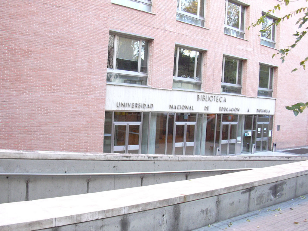 UNED Library, in Madrid.